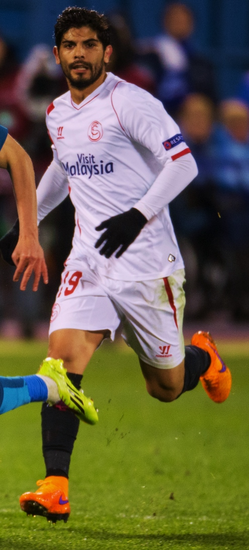 Éver Banega